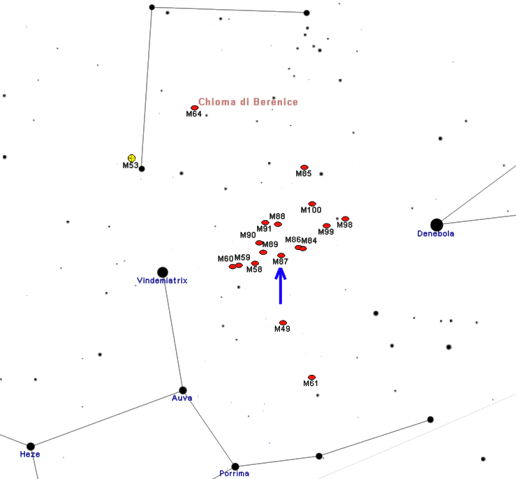 Map of M87